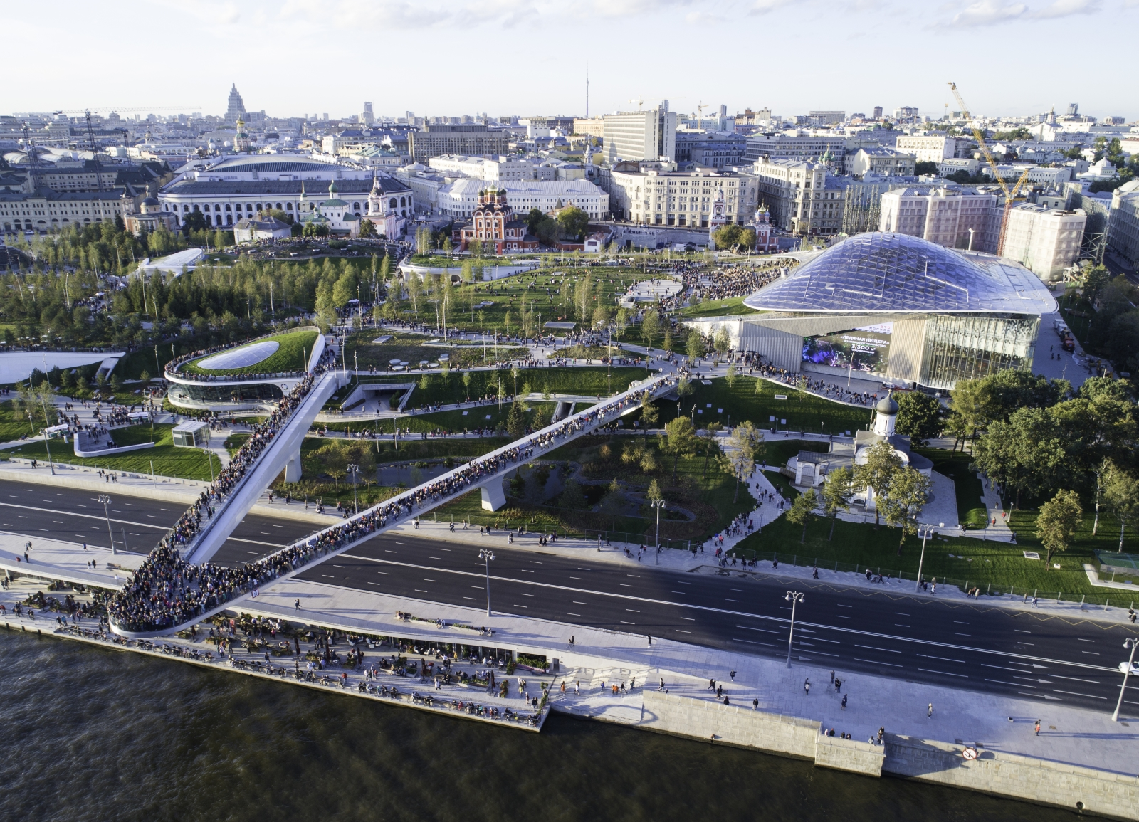 Zaryadye Park in Moscow